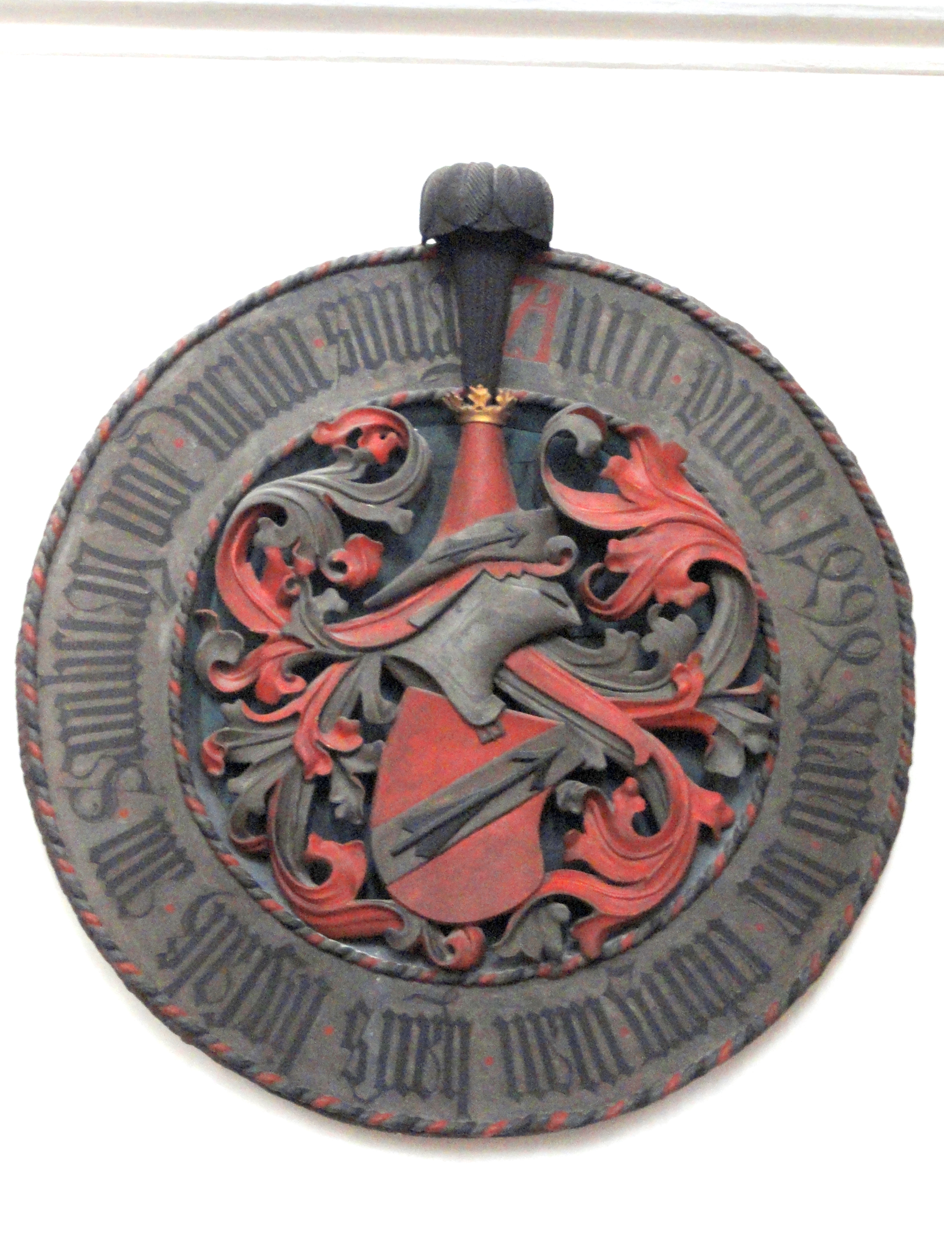 Memorial in the Frauenkirche, Munich, Germany.